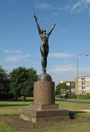 Émile Oscar Guillaume (French, 1867-1942): La Délivrance, copy of the 1919 original bronze statue. The shown statue was gifted to Finchley by Lord Rothermere in 1927. Located just to the north of the A406 at Henlys corner, bus passengers wishing to get off at the adjacent stop would ask for 'the Naked Lady' when purchasing their ticket. Passengers travelling along the North Circular, on the other hand would ask for 'Henlys Corner'. The joys of Fare Stages, now a thing of the past. Finchley Synagogue is just visible in the trees to the right of the plinth.